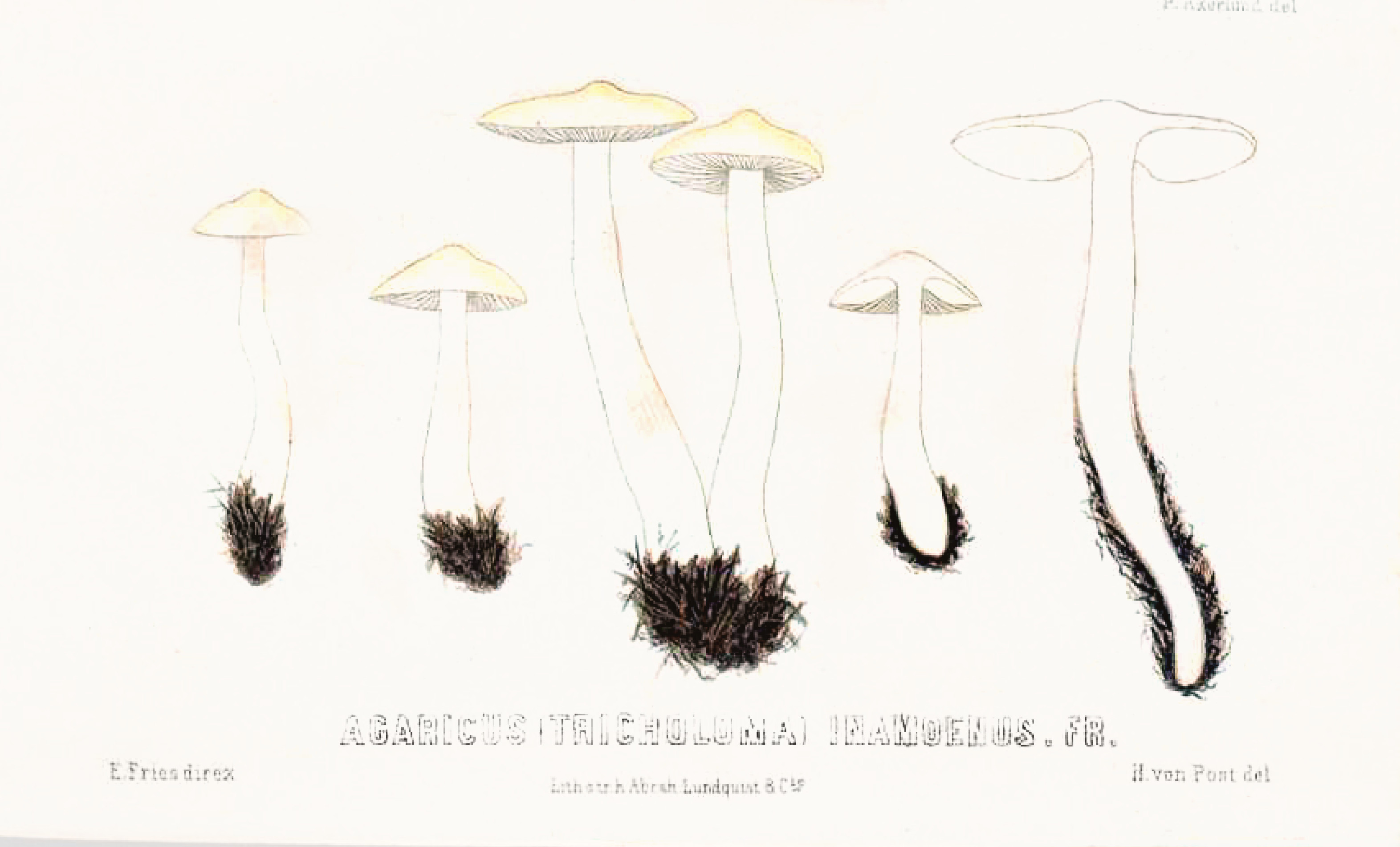 Drawing of Agaricus inamoenus (Pl.: 38, Fig.: 2) in "Icones selectae hymenomycetum nondum delineatorum" by E.M. Fries. Description of the fungi by Fries on page 34 (in Latin).